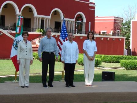 Official welcome ceremony President Bush & President Calderon in Temozon